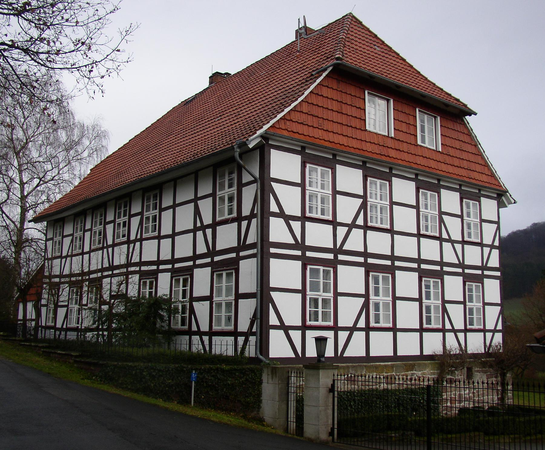 „Obergut Appenrode“ in Gleichen in Lower Saxony, Germany